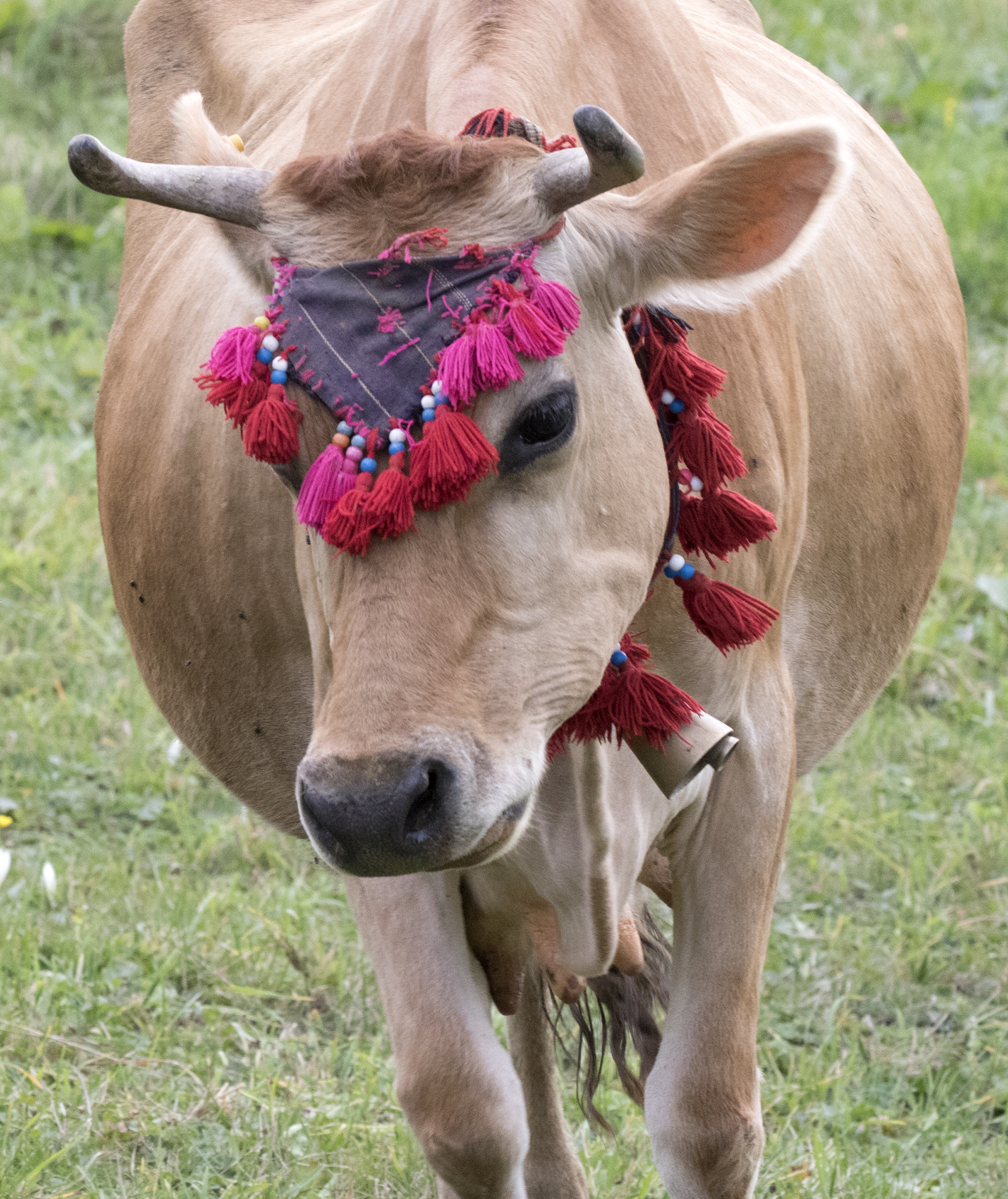 A Jersey cow grazing at the meadows of Sisdağı in Gökçeköy, Şalpazarı - Trabzon, Turkey.